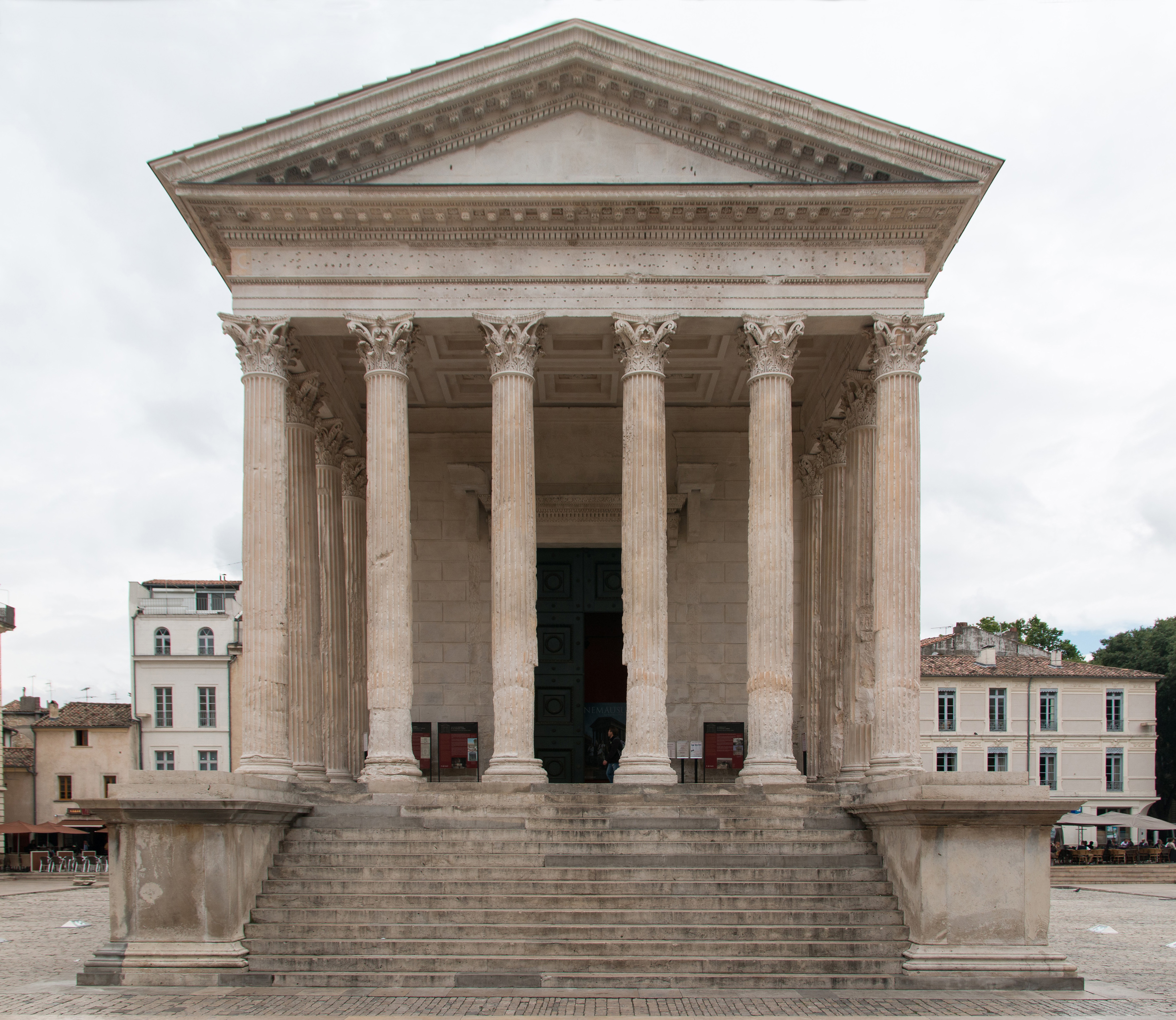 The Square House is a temple dedicated to the imperial cult of Caius and Lucius Cesar, adopted sons of the Emperor Augustus.